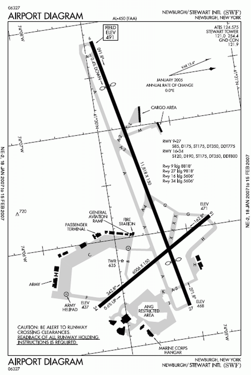 FAA diagram for Stewart International Airport (SWF) in Newburgh, New York, United States.